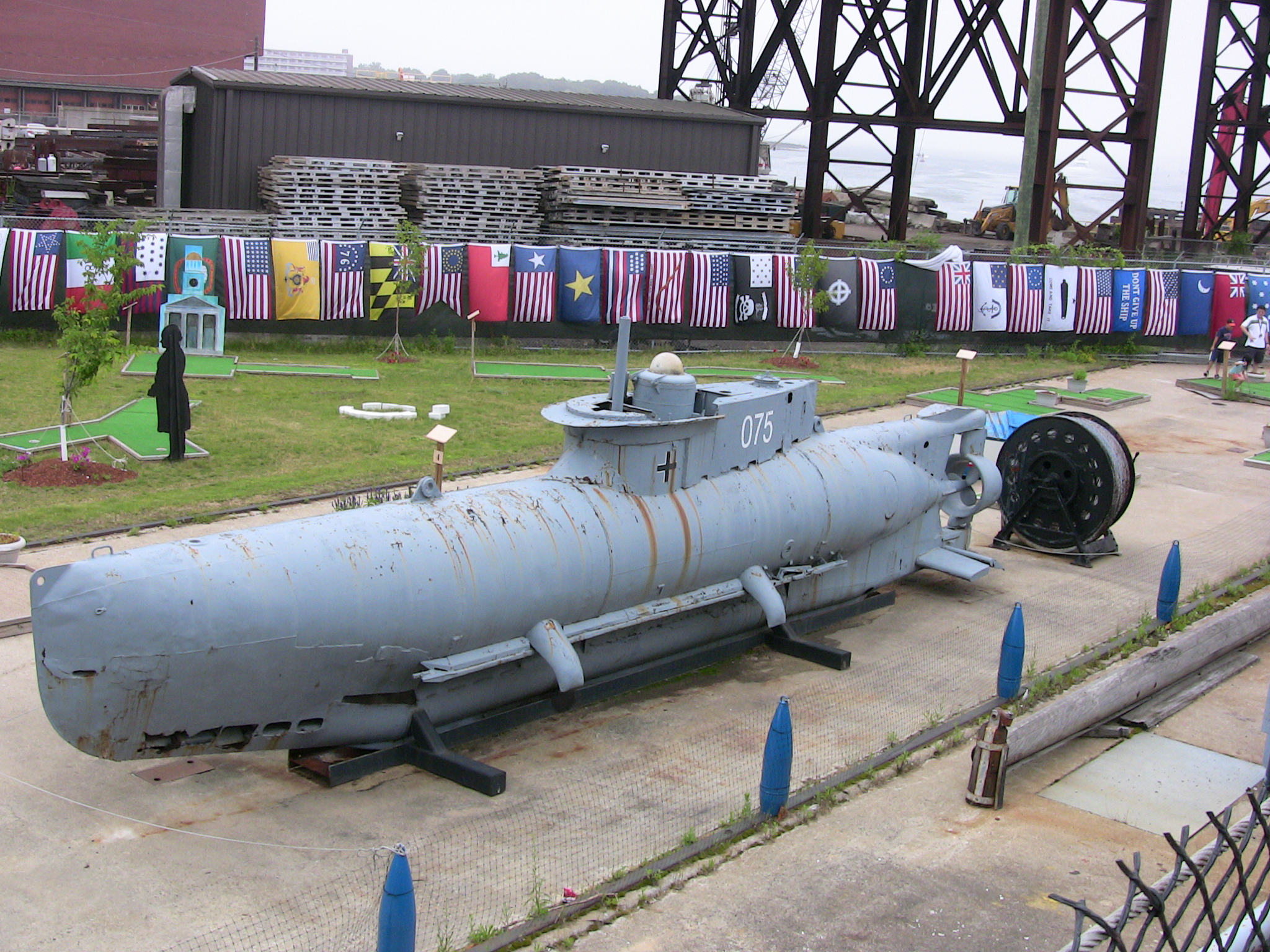 Photograph from left front above of German Seehund midget submarine No. 075 from World War II, next to USS Salem at Quincy, Massachusetts.